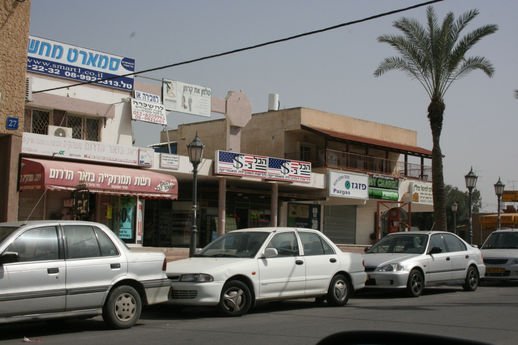 Settlements in Israel